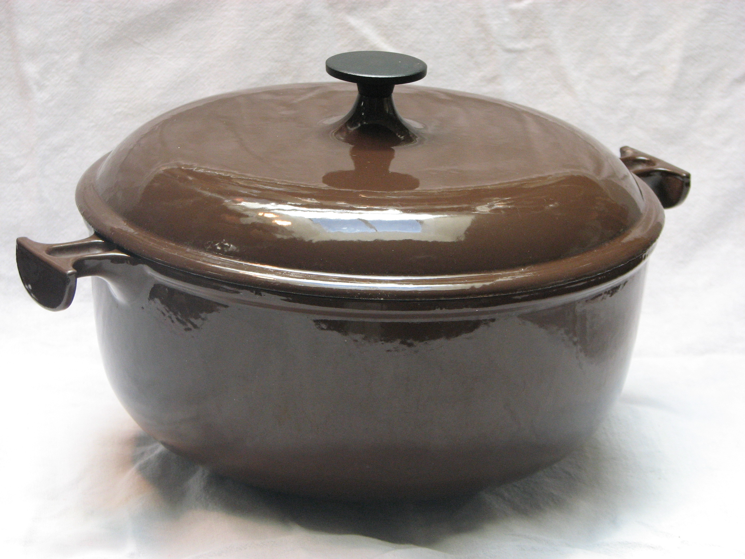 Le Creuset french/dutch oven from the La Mama line, designed by Enzo Mari.